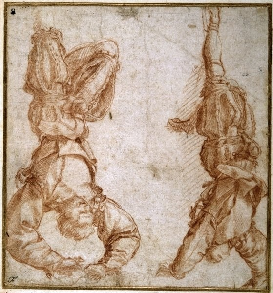 Drawing, in red chalk on white paper, of two men each hanged by one foot. This was a preparatory sketch for a pittura infamante or shame painting. This drawing is part of the Duke of Devonshire Collection, Chatsworth, England. Hanging by one foot was a method of execution, prolonged and particularly degrading. In Germany it was usually associated with Jews and called the "Jewish Execution", while in Italy it was usually associated with traitors. Shame paintings, depicting such hanging in effigy, were common in some parts of Italy, including Florence. Andrea del Sarto drew seven such images which have survived. One of the Tarot trump cards shows such a hanged man, which was called il traditore (The Traitor) in most early sources.